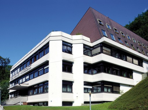 Main building of Villa Blanka, a secondary school (high school) for hospitality industry training in Innsbruck, Tyrol, Austria